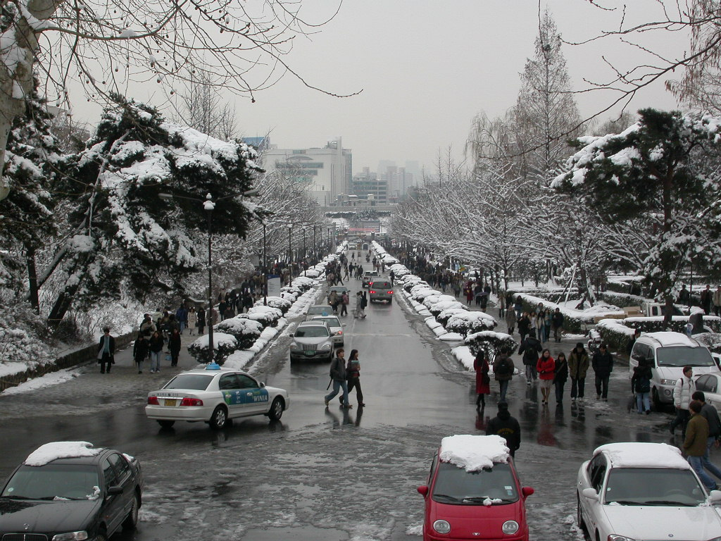 Baekyangro